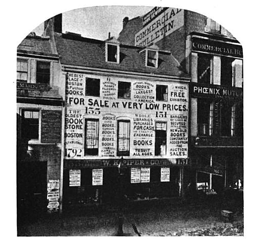 William H. Piper & Co., booksellers, Washington St., Boston